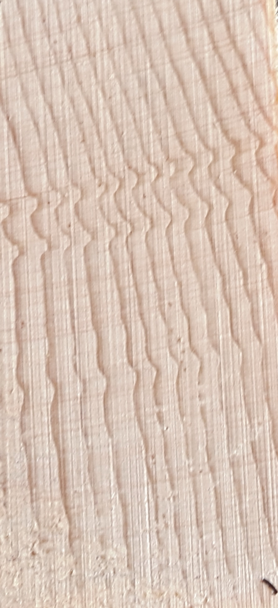 End grain in transverse section of Picea sitchensis (Bong.) Carrière